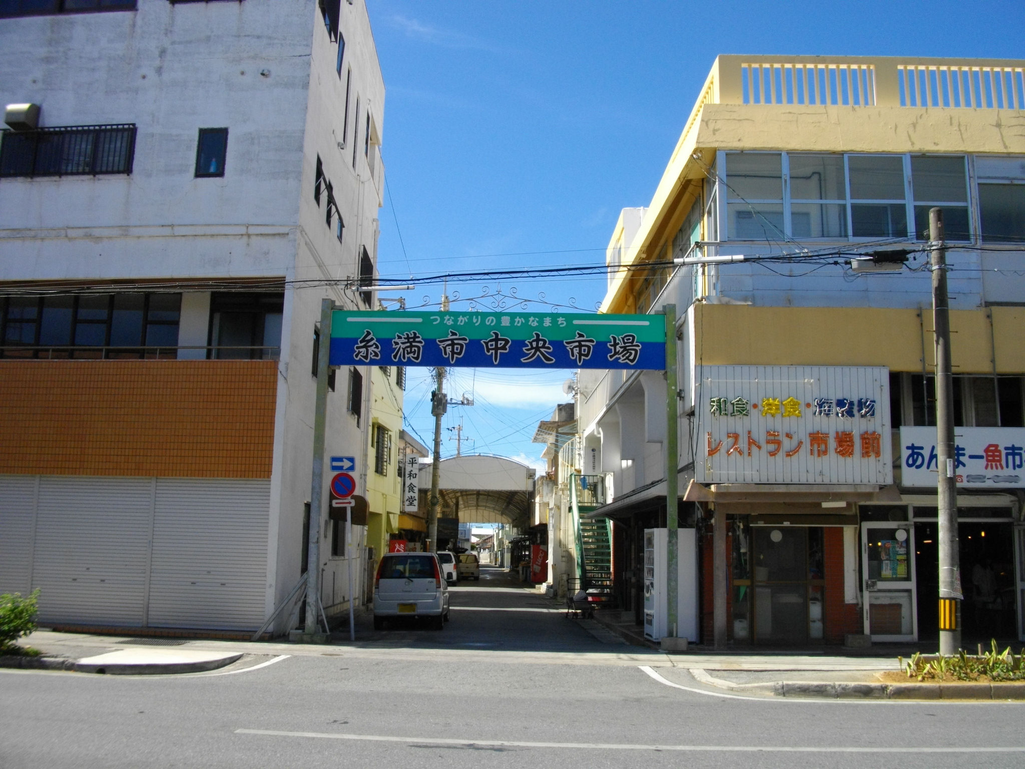 Itoman City Central Market